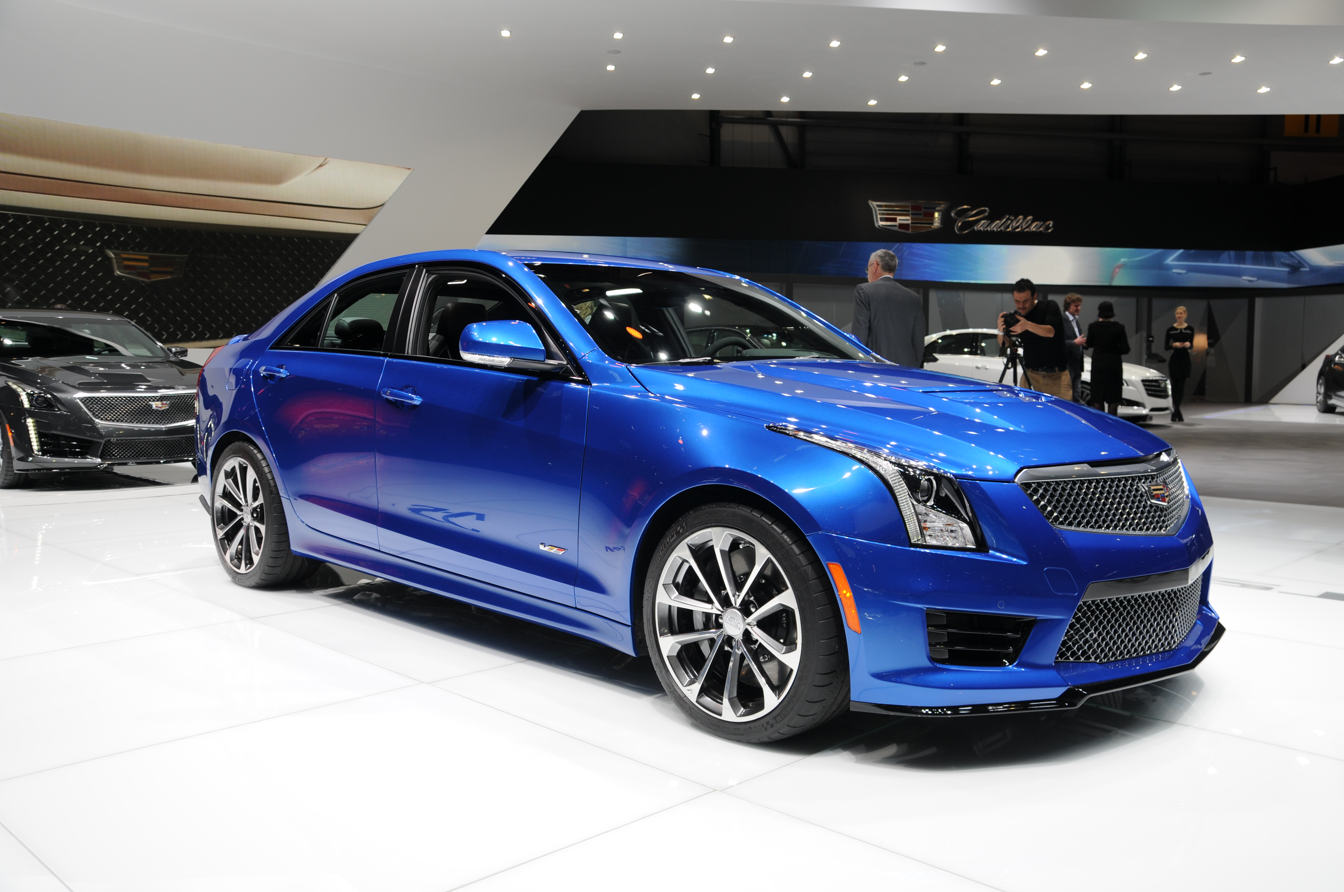 Geneva Motor Show 2015 (photo taken on the first press day)